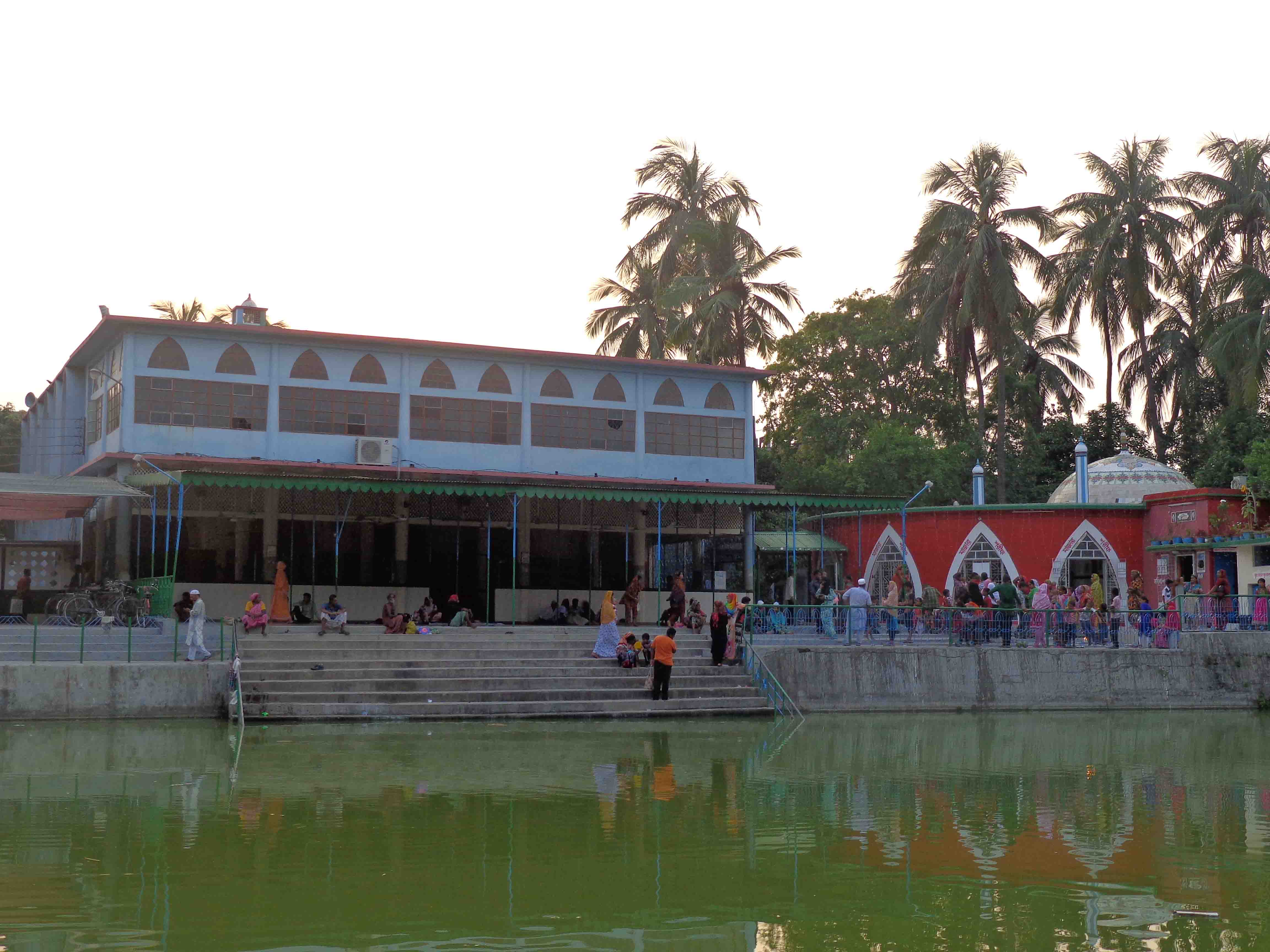 A Majar In Rajshahi